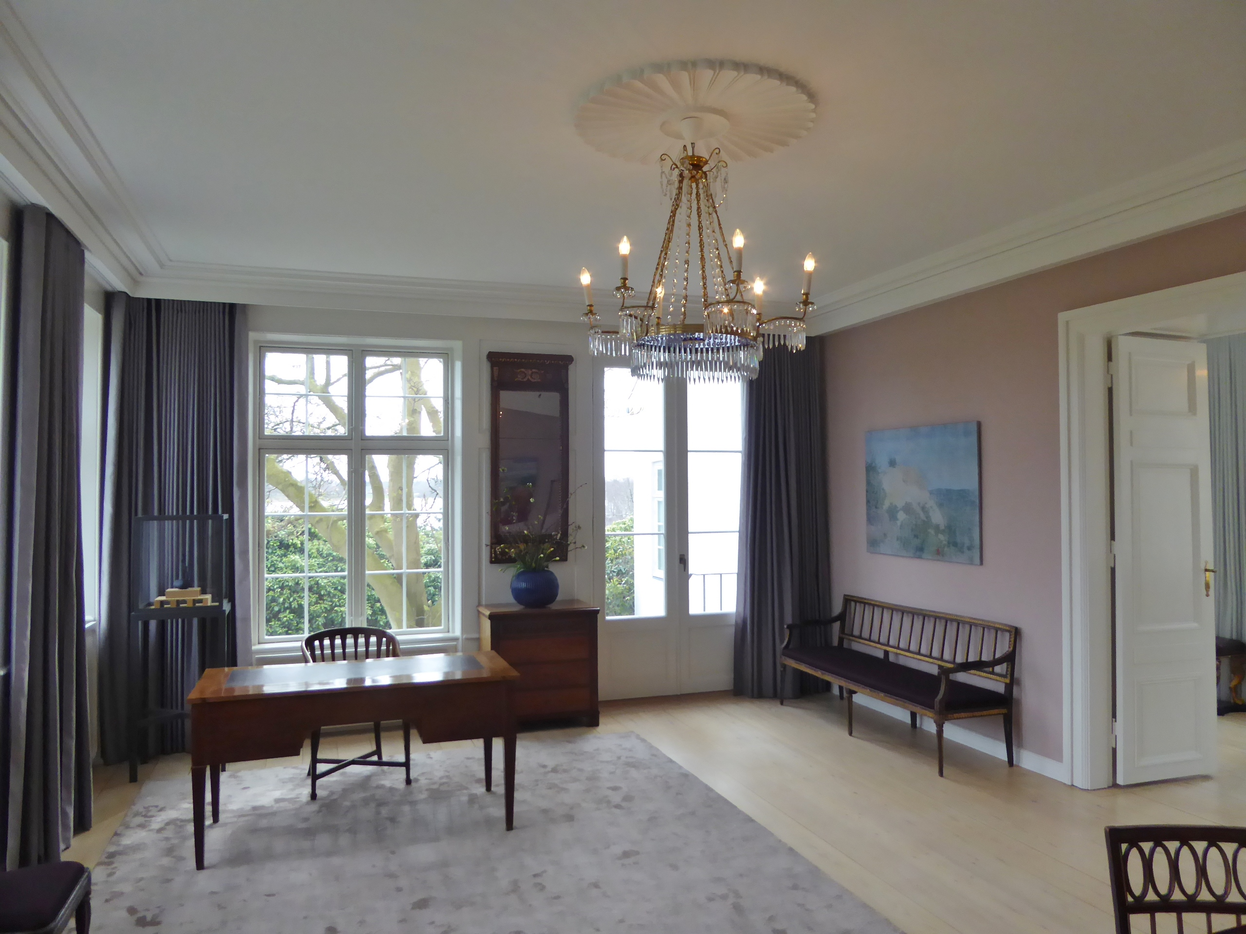 The mansion Marienborg of Copenhagen which is used as residence for the Danish prime minister and for representative purposes. It is usually closed for the public but after a renovation it was possible to take part in a conducted tour during a weekend. The reception room where the new year speech of the prime minister is often recorded.